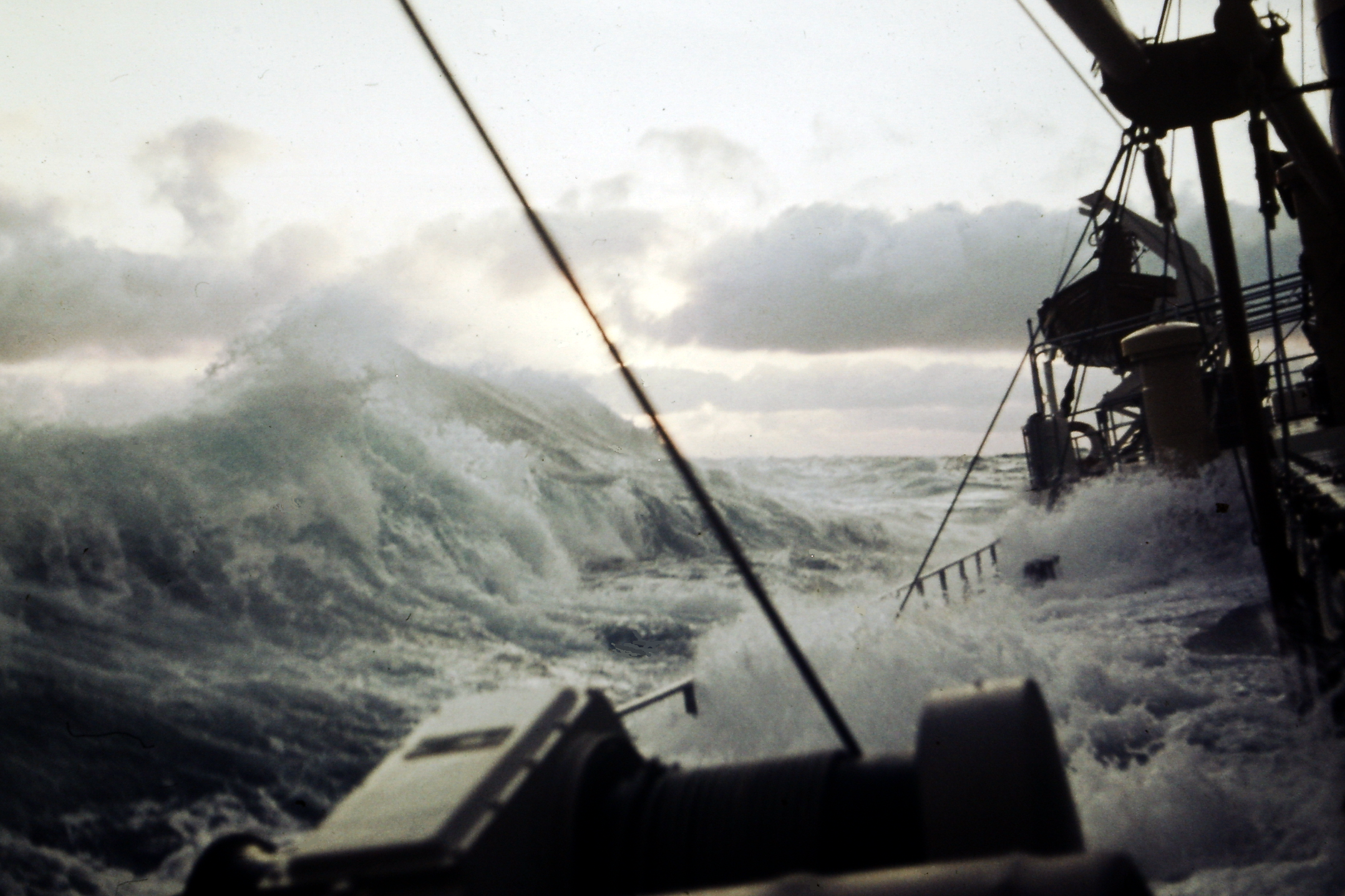 Winter North Atlantic – storm, high sea from the starboard side, water on deck and hatches